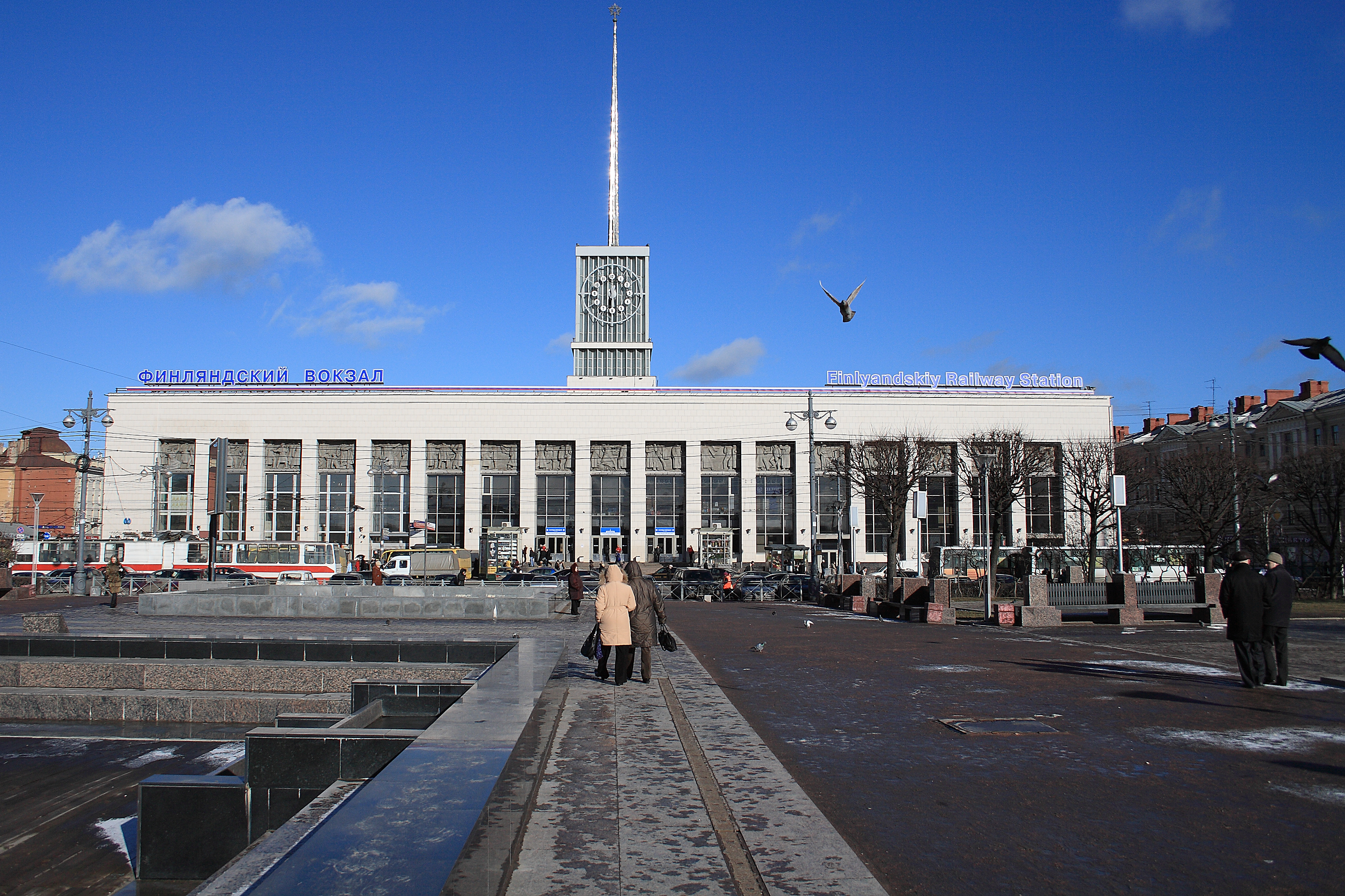 Saint Petersburg (Russia), Finlyandsky Rail Terminal.